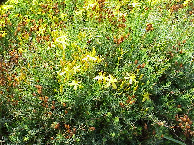 Species: Hypericum coris Family: Hypericaceae Image No. 3